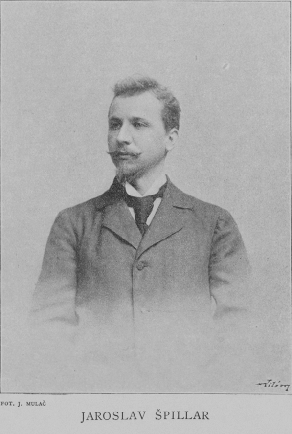 Photo of Jaroslav Špillar (1869-1917), Czech painter.